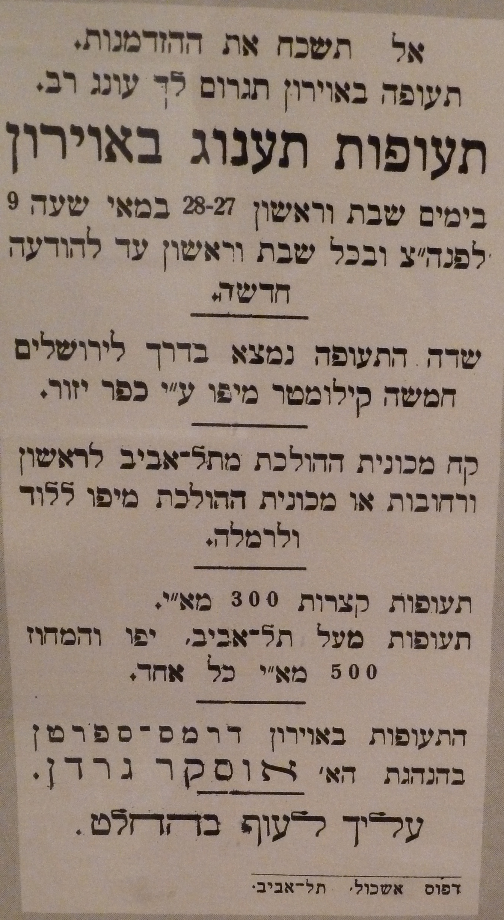 Tel Aviv historical ads from the 1920s and the 1930s. An exhibition at the Shalom Meir Tower